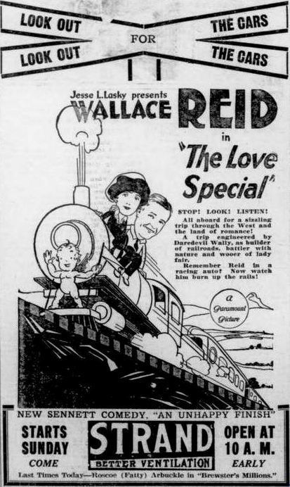 Newspaper advertisement for the American film The Love Special (1921) with Wallace Reid and Agnes Ayres, on page 9 of the April 30, 1921 Duluth Herald.